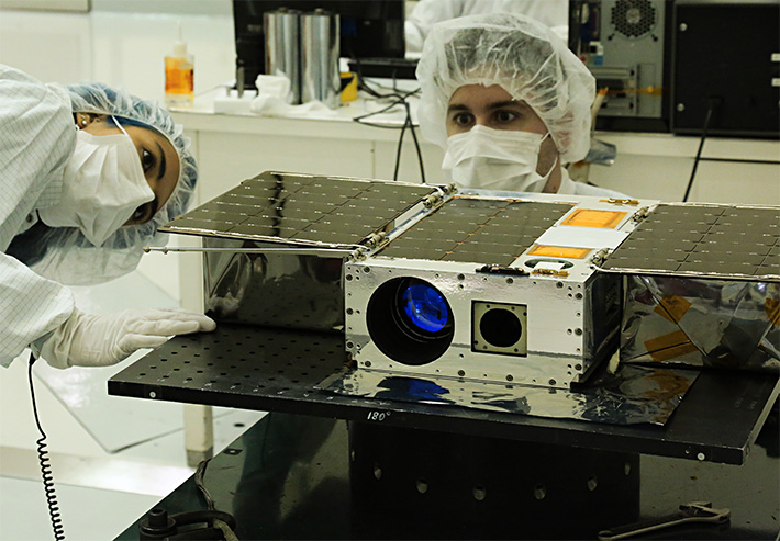 ASTERIA (Arcsecond Space Telescope Enabling Research in Astrophysics) is a miniaturized space telescope meant as a technology demonstrator to advance the CubeSat capabilities for astrophysical measurements and exoplanet detection by the transit method. Its bus is a nanosatellite of the 6U CubeSat format. It was designed in collaboration between the Massachusetts Institute of Technology (MIT) and NASA's Jet Propulsion Laboratory. ASTERIA was launched on 14 August 2017 and deployed into low Earth orbit from the International Space Station on November 2017.